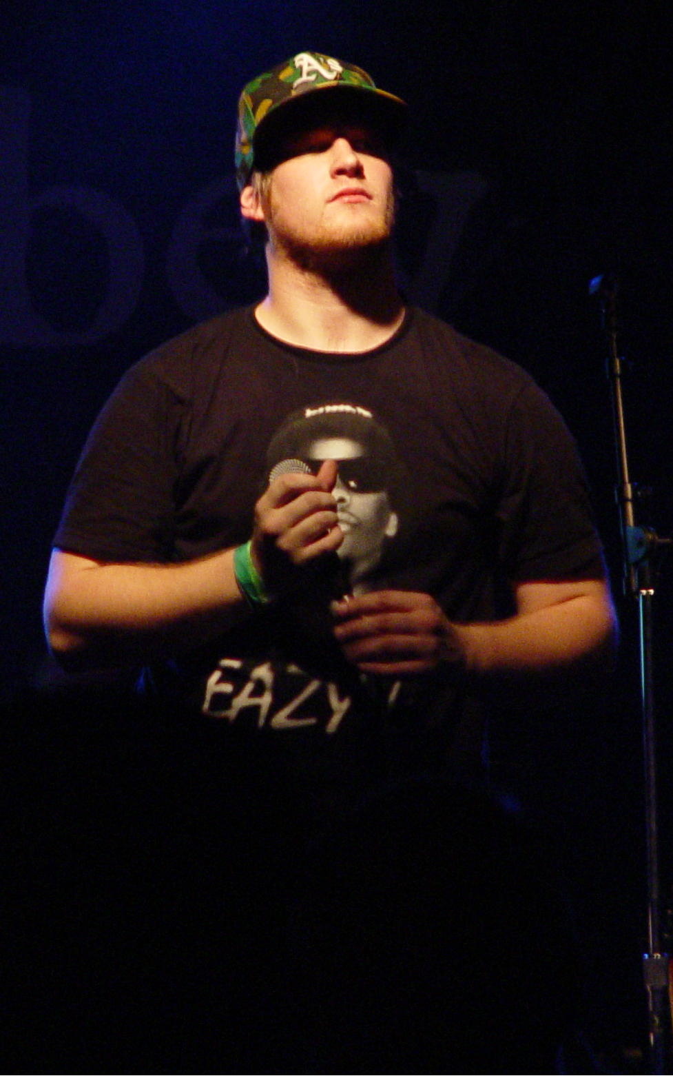 MC Lars at the Abbey Pub, Chicago.